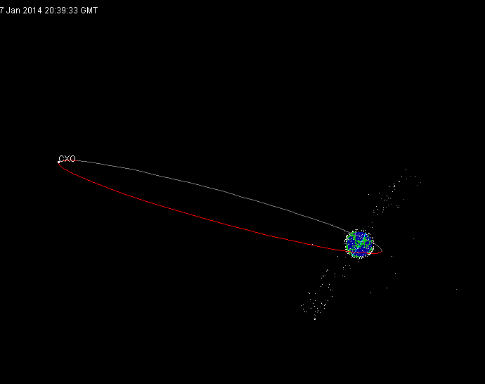 Map showing the rather large orbit of the CXO (Chandra Observatory).